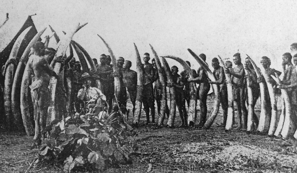 Deaf Banks with tusks from elephant shot in the Lado Enclave, 1905